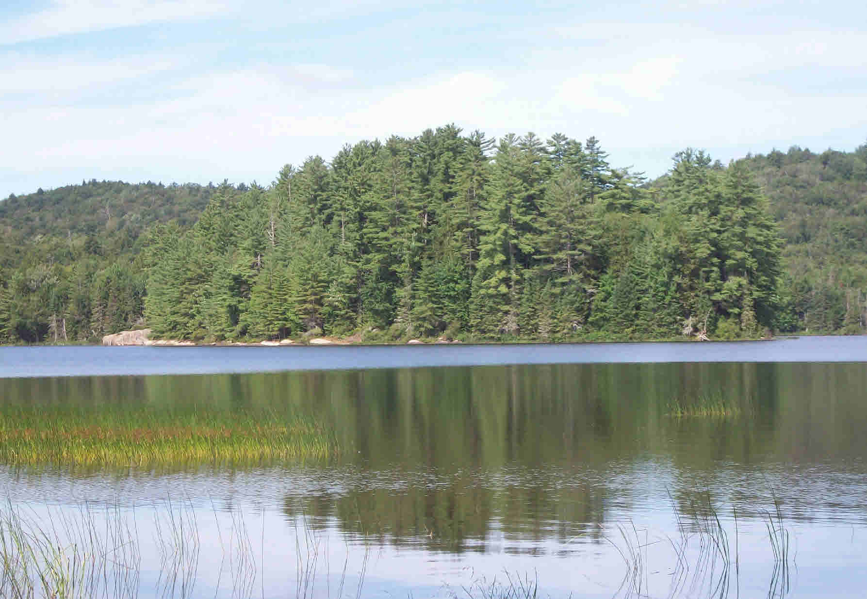 Island in the middle of Browns Tract Pond.